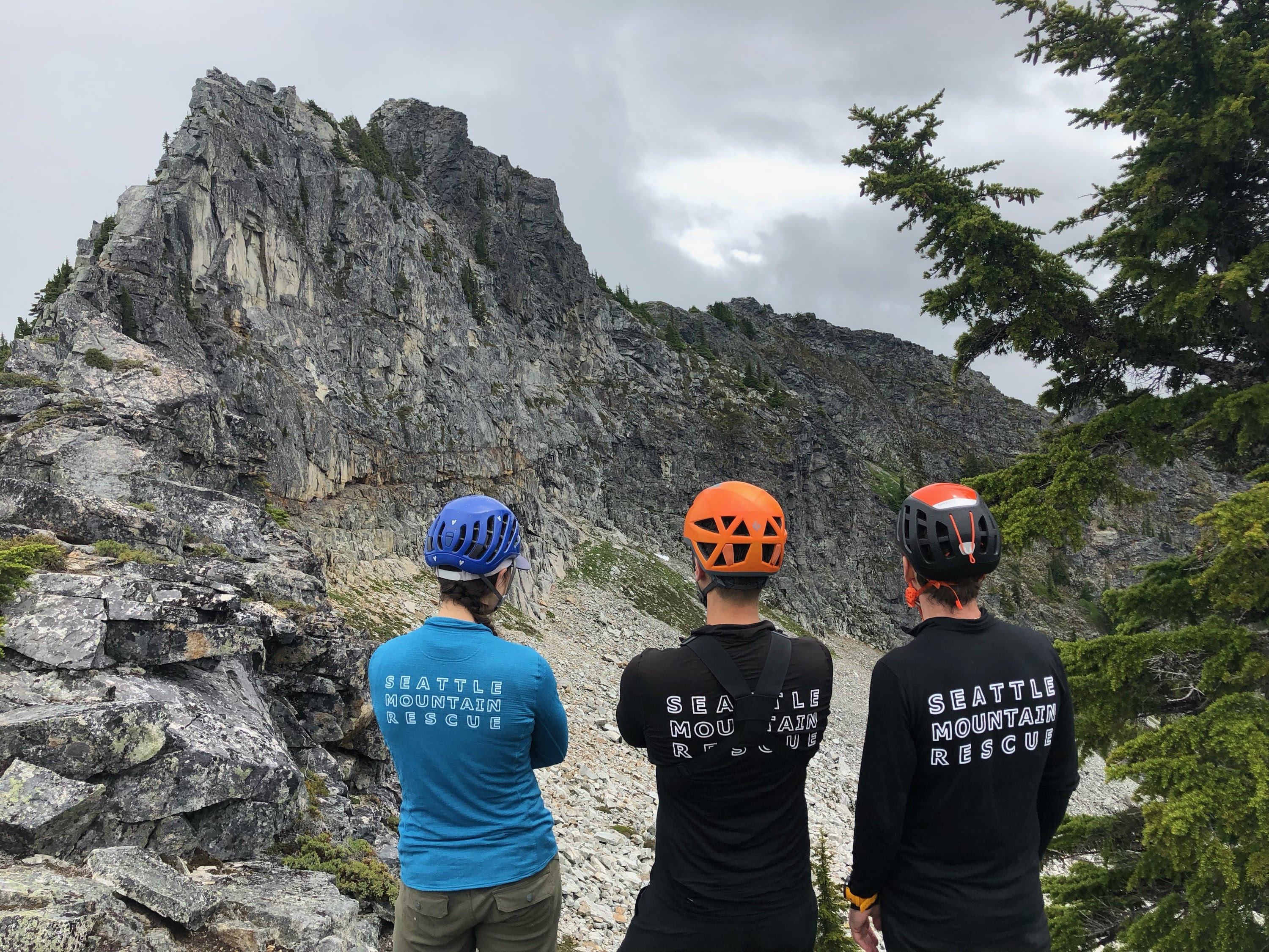 SMR Members on a mission in July 2019, scouting a route to a subject.